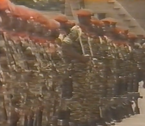 Soldiers of the 31st Zairian Airbone Brigade during a speech by General Mahele, between 1991-1993